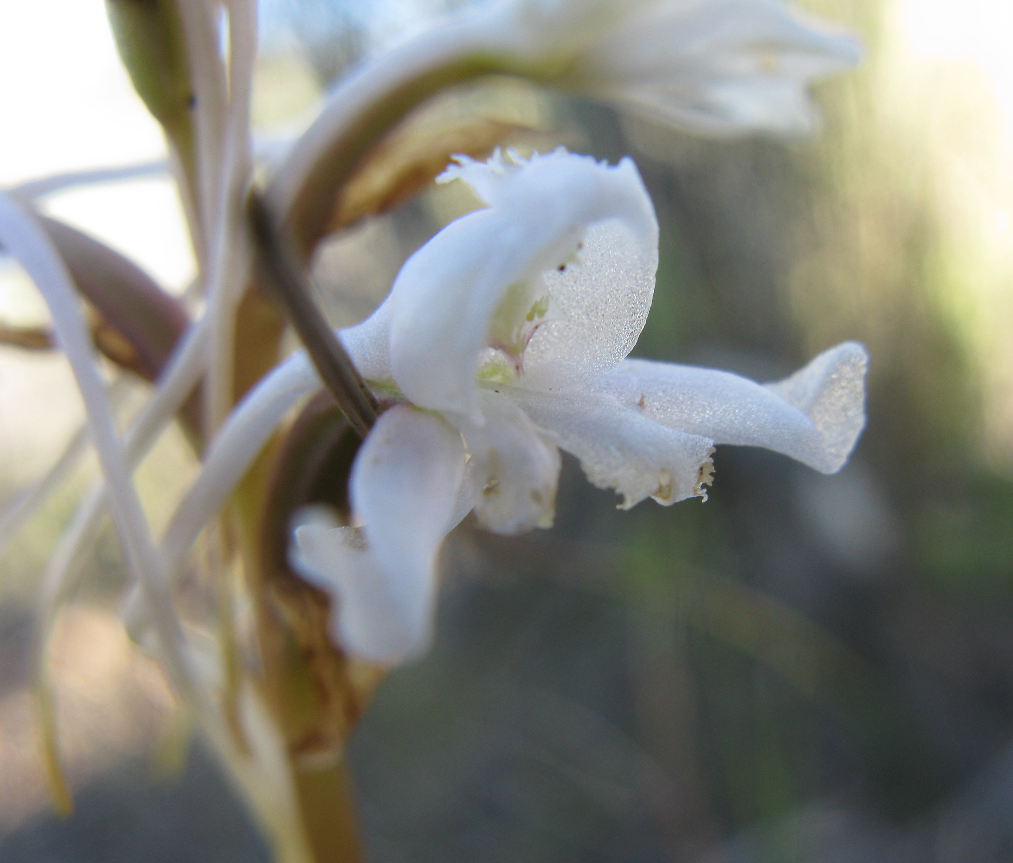 Satyrium membranaceum Sw (syn. Satyrium jacottetiae Kraenzl) Ground Orchid in the veld south of Uniondale, Southern Cape, South Africa.